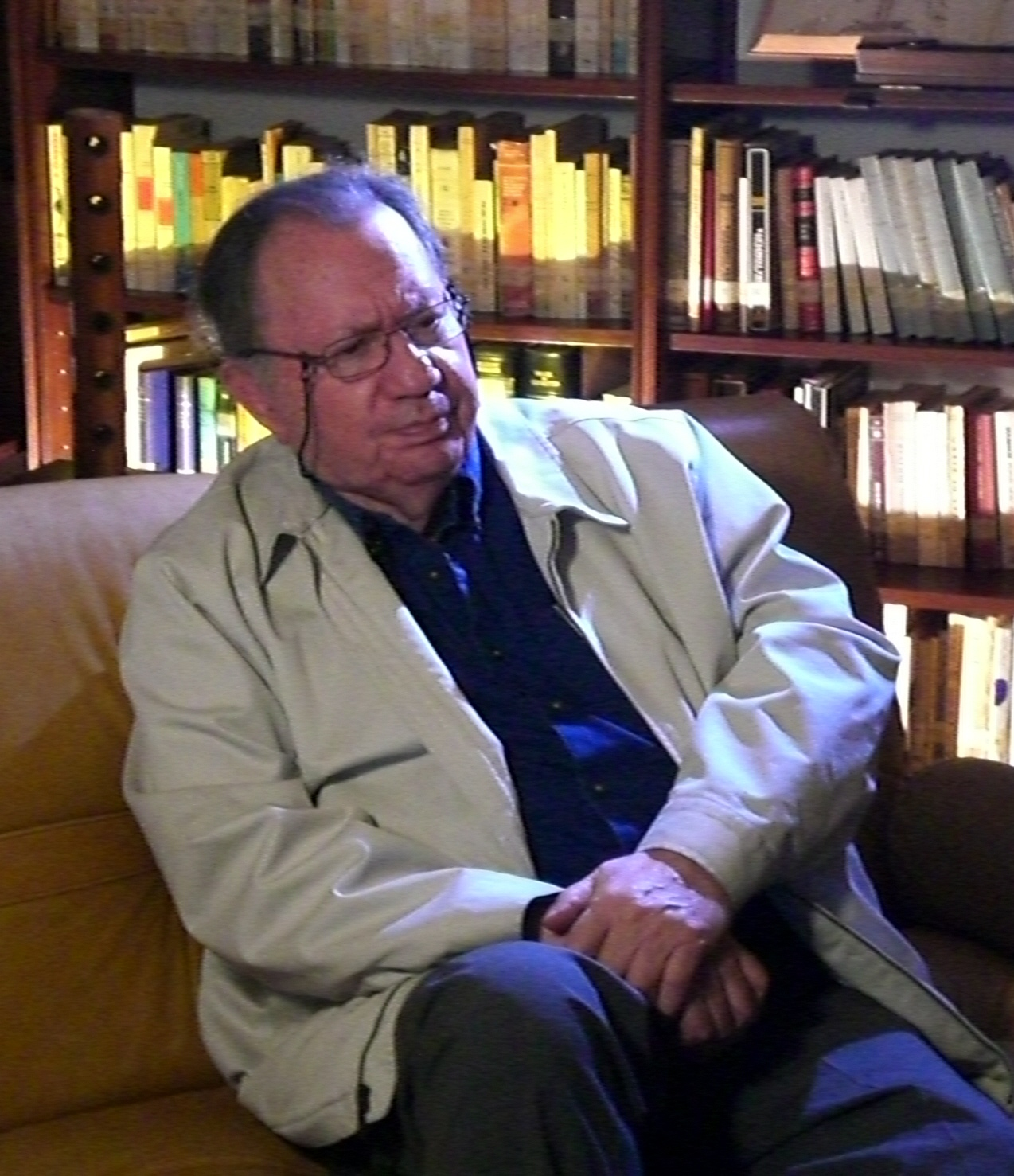 Venezuelan historian Germán Carrera Damas (1930), at the library of the Rómulo Betancourt Foundation, Caracas, Venezuela.